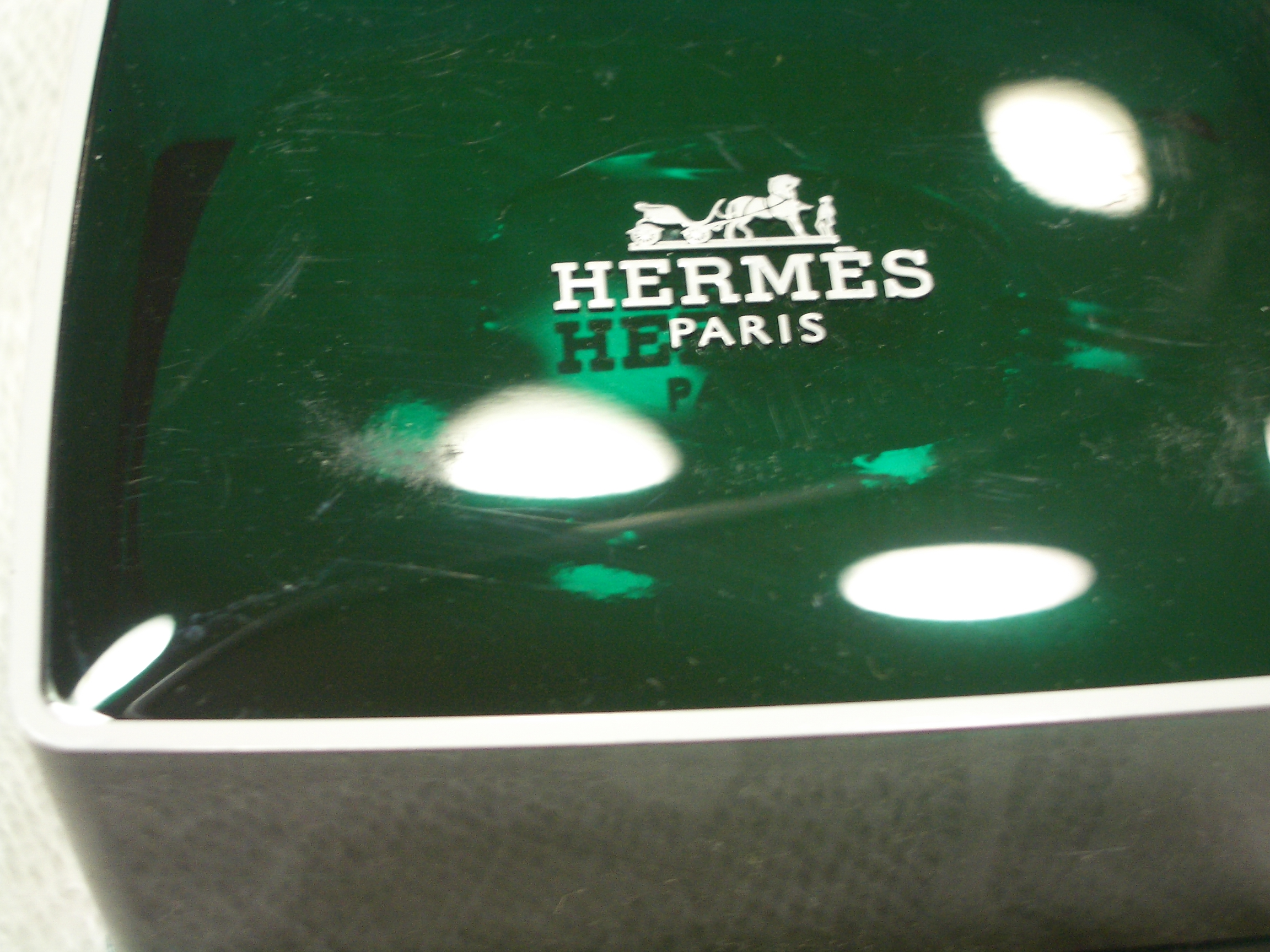 Did I use this? No. Am I impressed by the Hermes soap container? Nope. Did I take it with me? Yes.